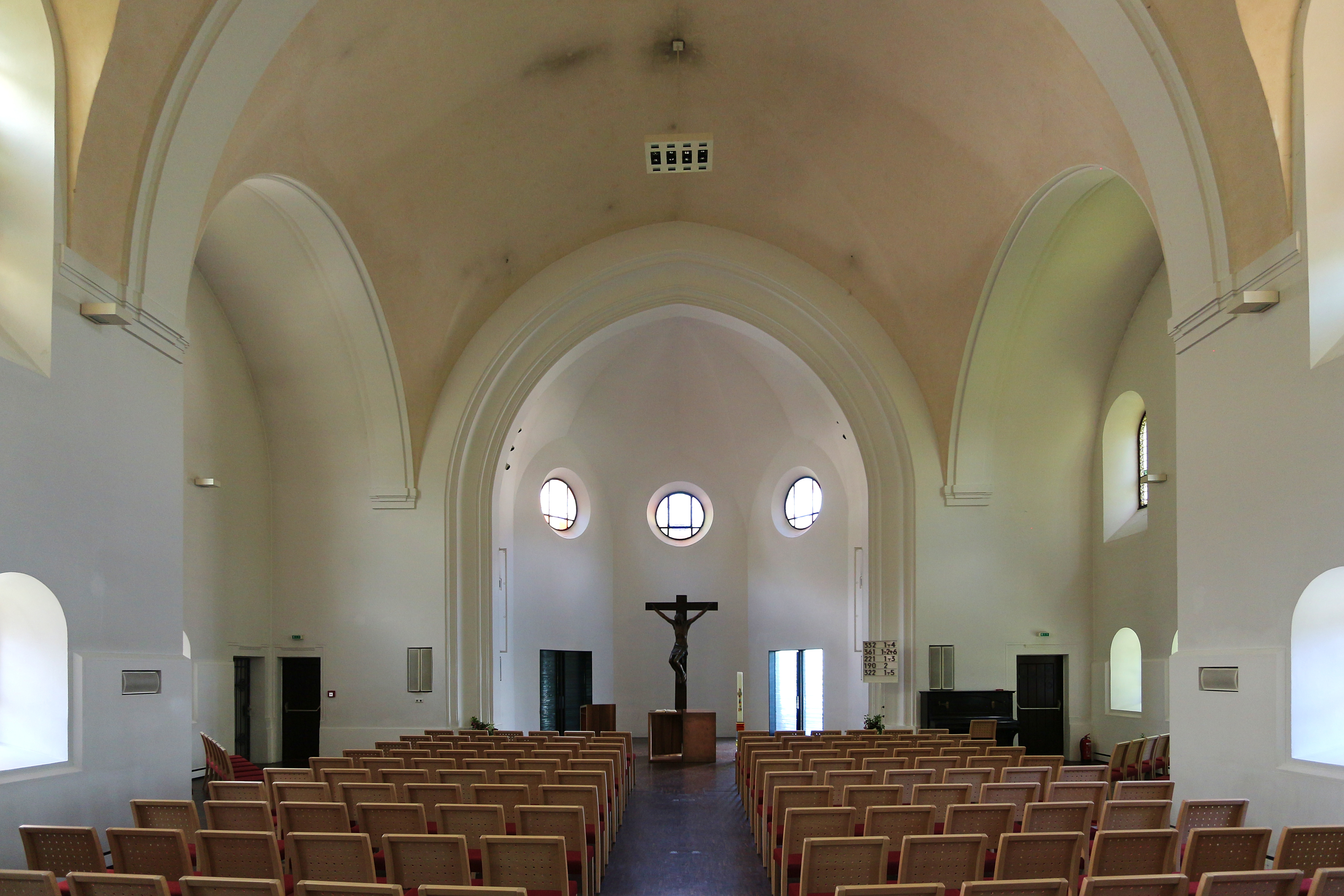 Christuskirche Innsbruck